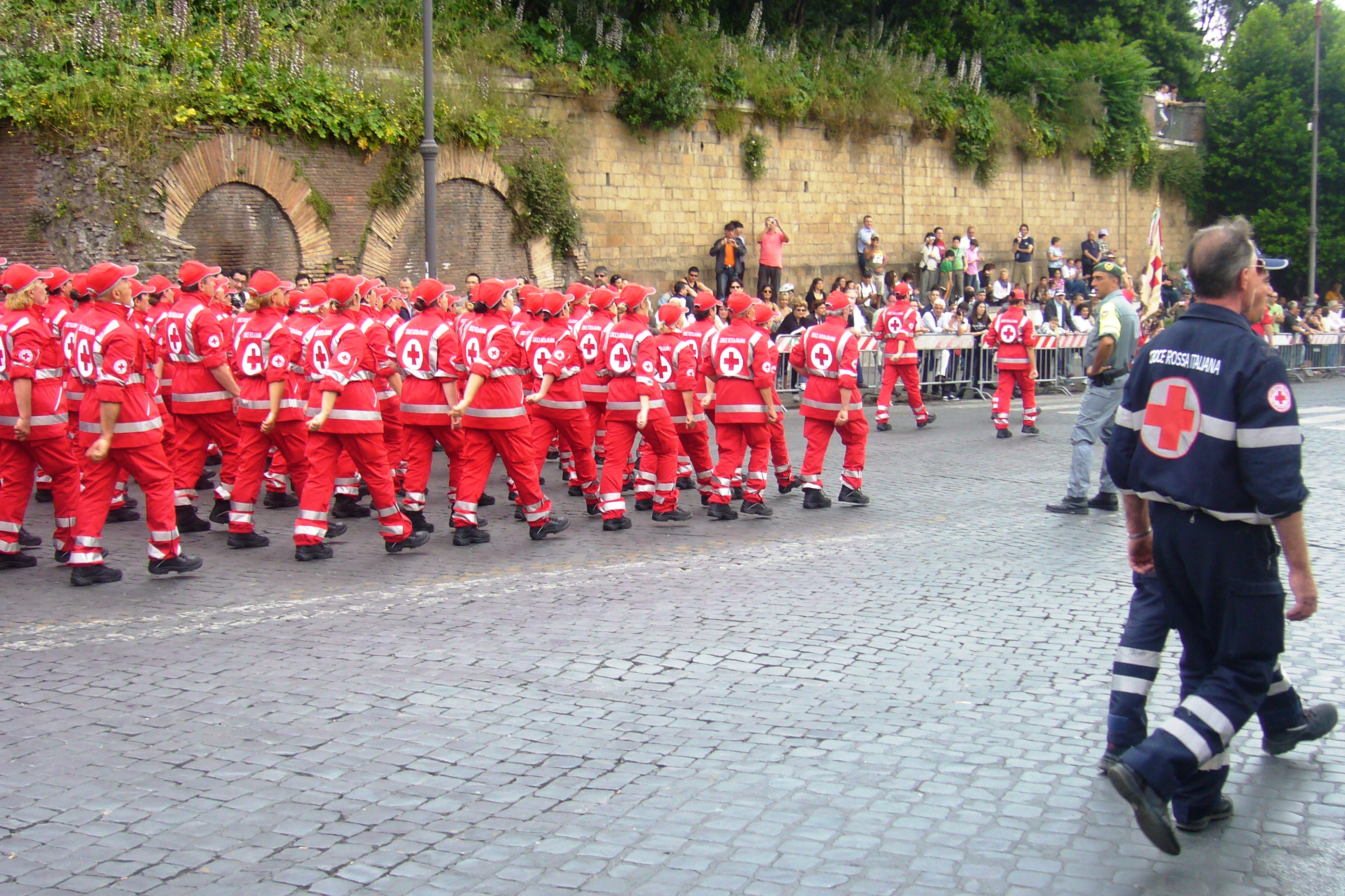 Volunteer Emergency Medical Technicians of the Italian Red Cross on parade in Rome for the 2010 Republic Day. They wear the new high-visibility red uniform; on the right an EMT with the old blue uniform.